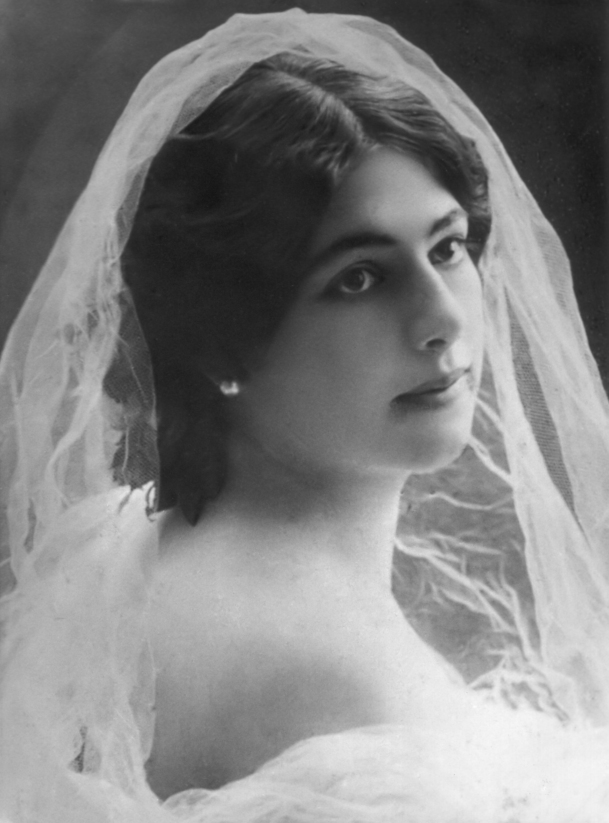 Margaretha Zelle